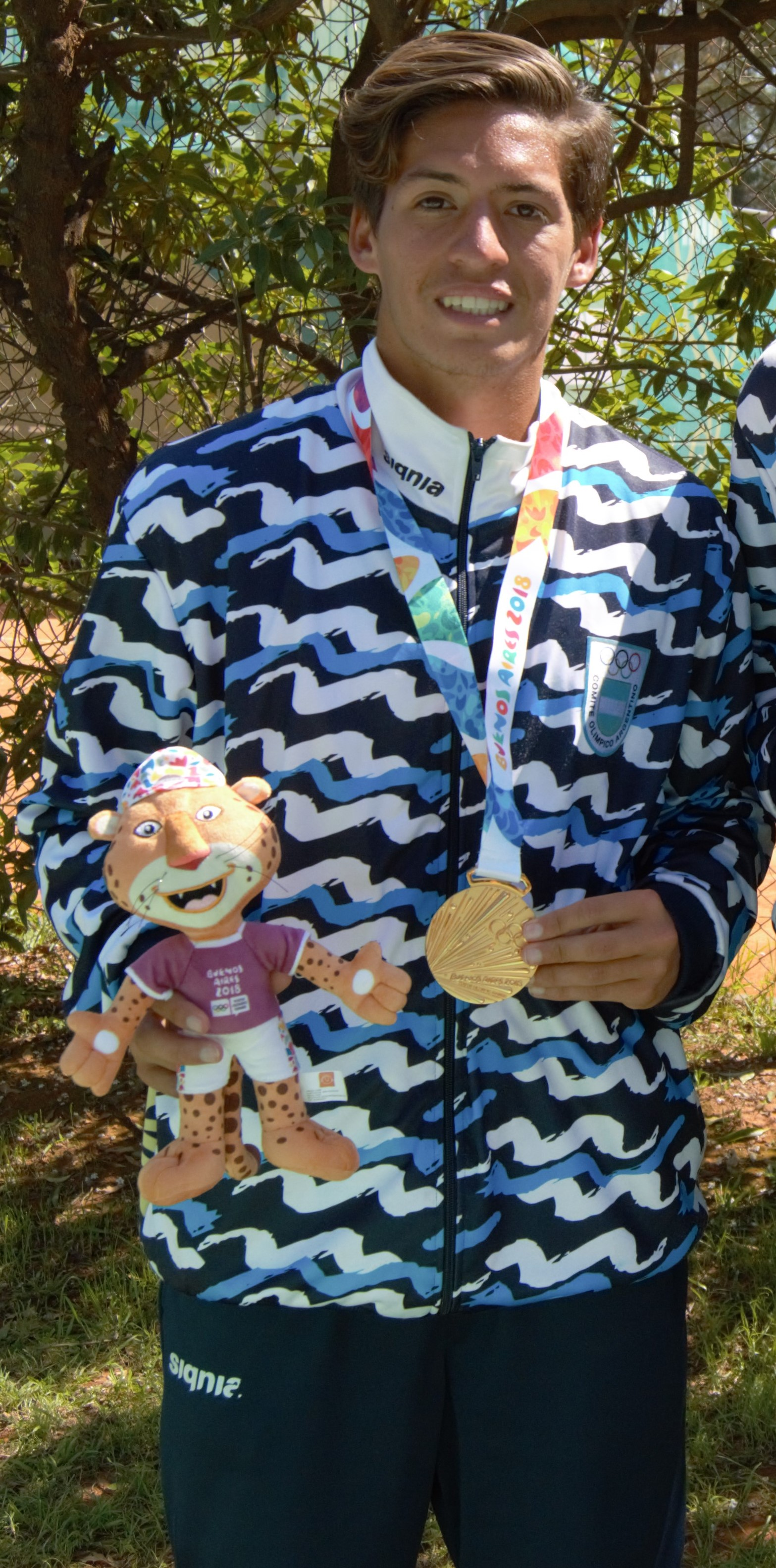 Sebastián Báez with his gold medal after the boys doubles tennis final at the 2018 Summer Youth Olympics.